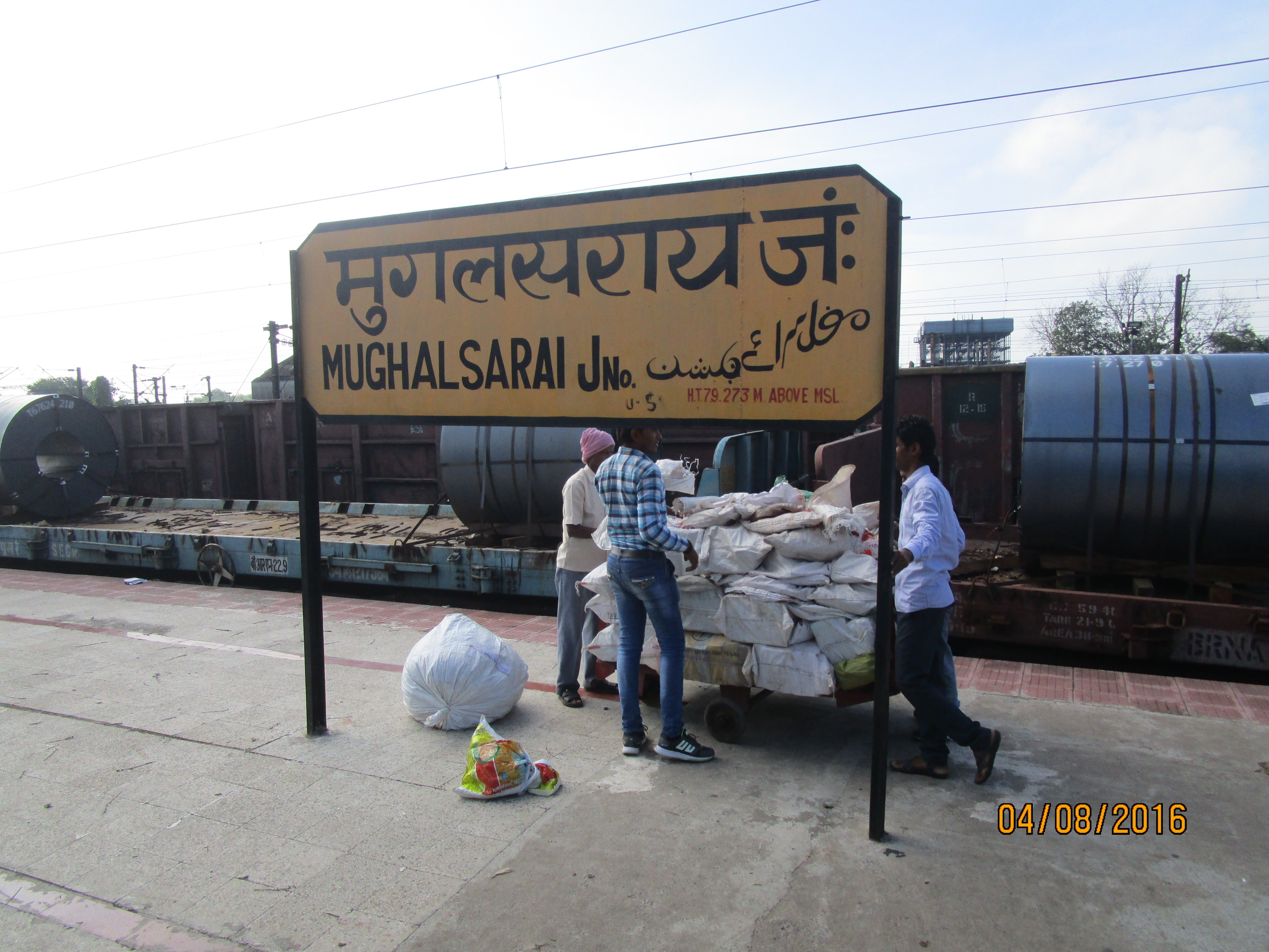 Mughalsarai Junction railway station